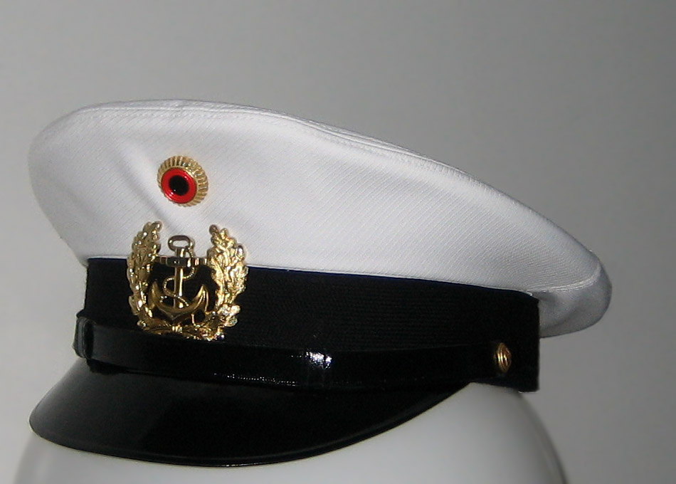 Peaked cap worn by sailors of the German Navy.